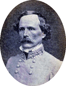 Jones Michell Withers (1814-1890)